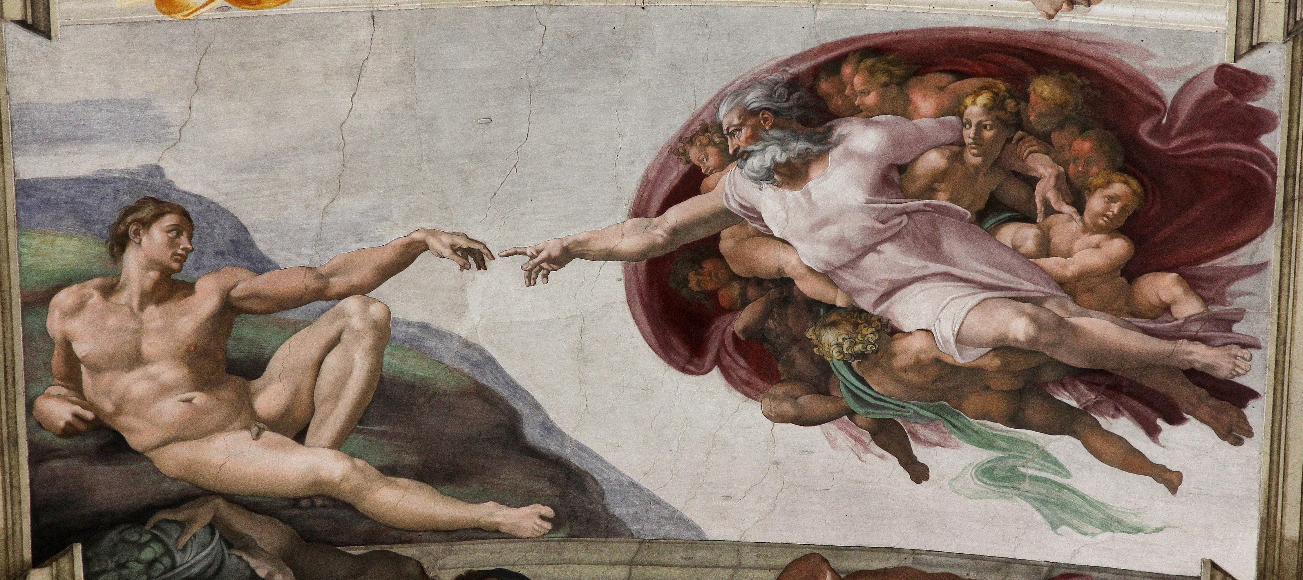 Creation of Adam, fresco painted by Michelangelo (1475-1564), Sistine Chapel Ceiling (1508-1512) Rome, Vatican